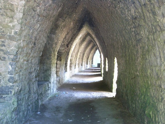 Lime kiln, Kiln Park Looking along the inside of a bank of limekilns, which originally had a railway track through so that the lime could be loaded directly into the railway wagons.